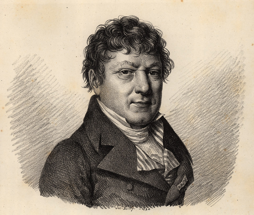 Jean-Baptiste Joseph Delambre - French mathematician and astronomer.